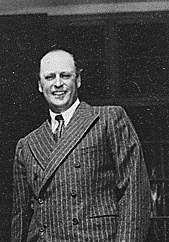 Crown Prince Olav (later King Olav V) and Crown Princess Märtha of Norway